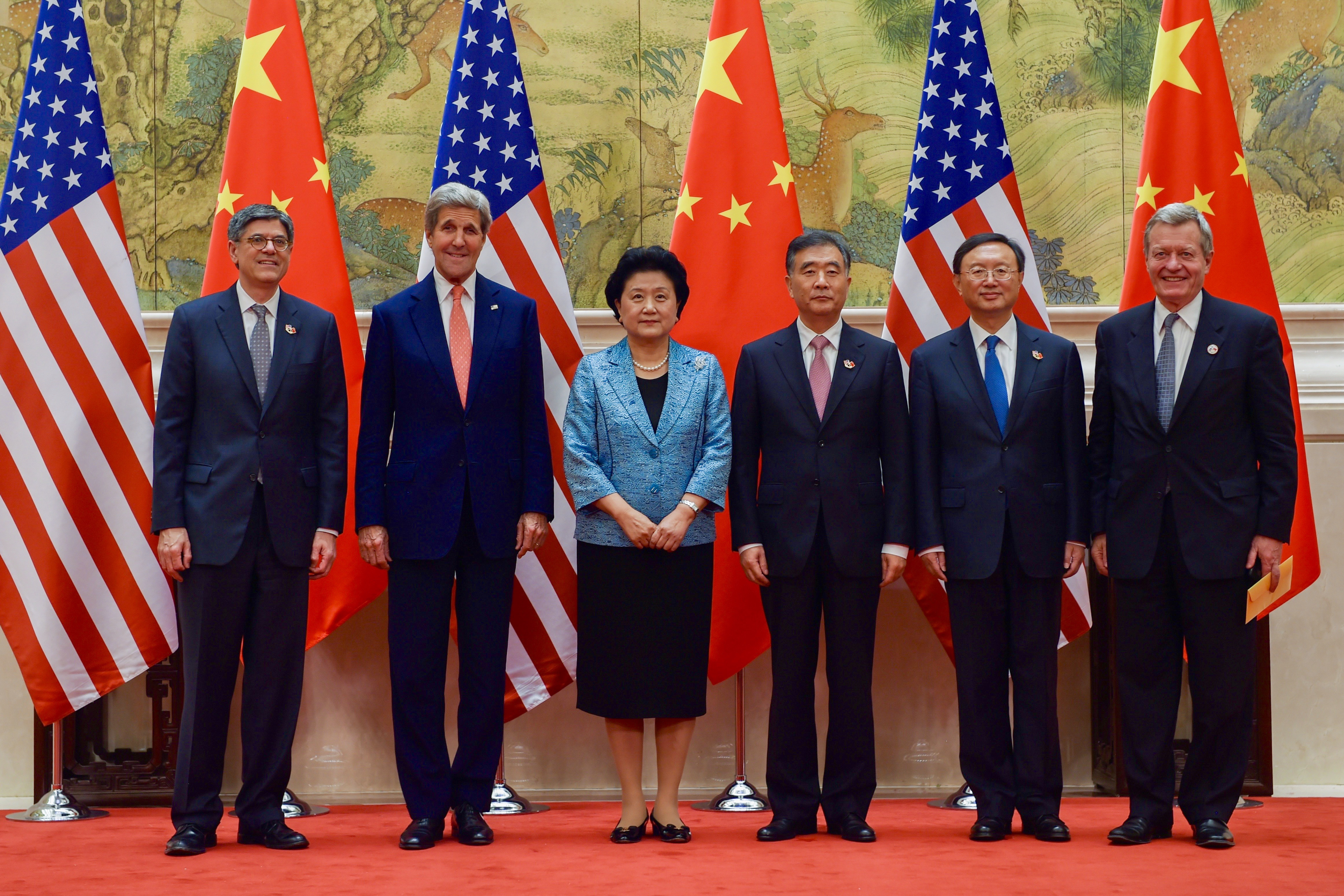 U.S. Secretary of State John Kerry poses with U.S. Treasury Secretary Jack Lew, Chinese Vice Premier Liu Yandong, Chinese Vice Premier Wang Yang, Chinese State Councilor Yang Jiechi, and U.S. Ambassador to China Max Baucus on June 6, 2016, in the Banquet Hall at the Diaoyutai Guest House complex in Beijing, China, before a group photo preceding a dinner to conclude the first day of a two-day Strategic and Economic Dialogue between their respective countries. [State Department photo/ Public Domain]